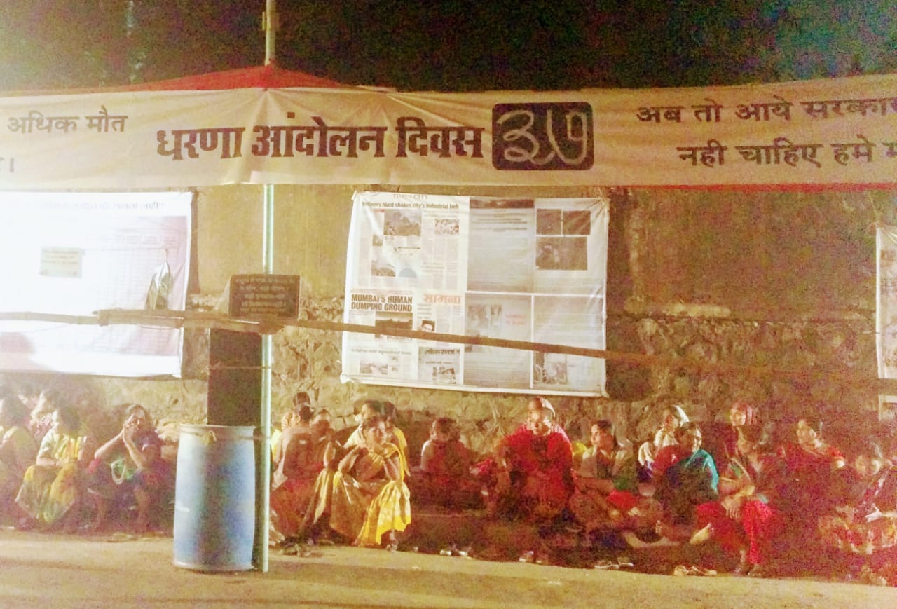 Outside Tansa Pipeline, Vidyavihar. Protesters gather here daily, many sleep through night, many students go to school and college from the protest site.